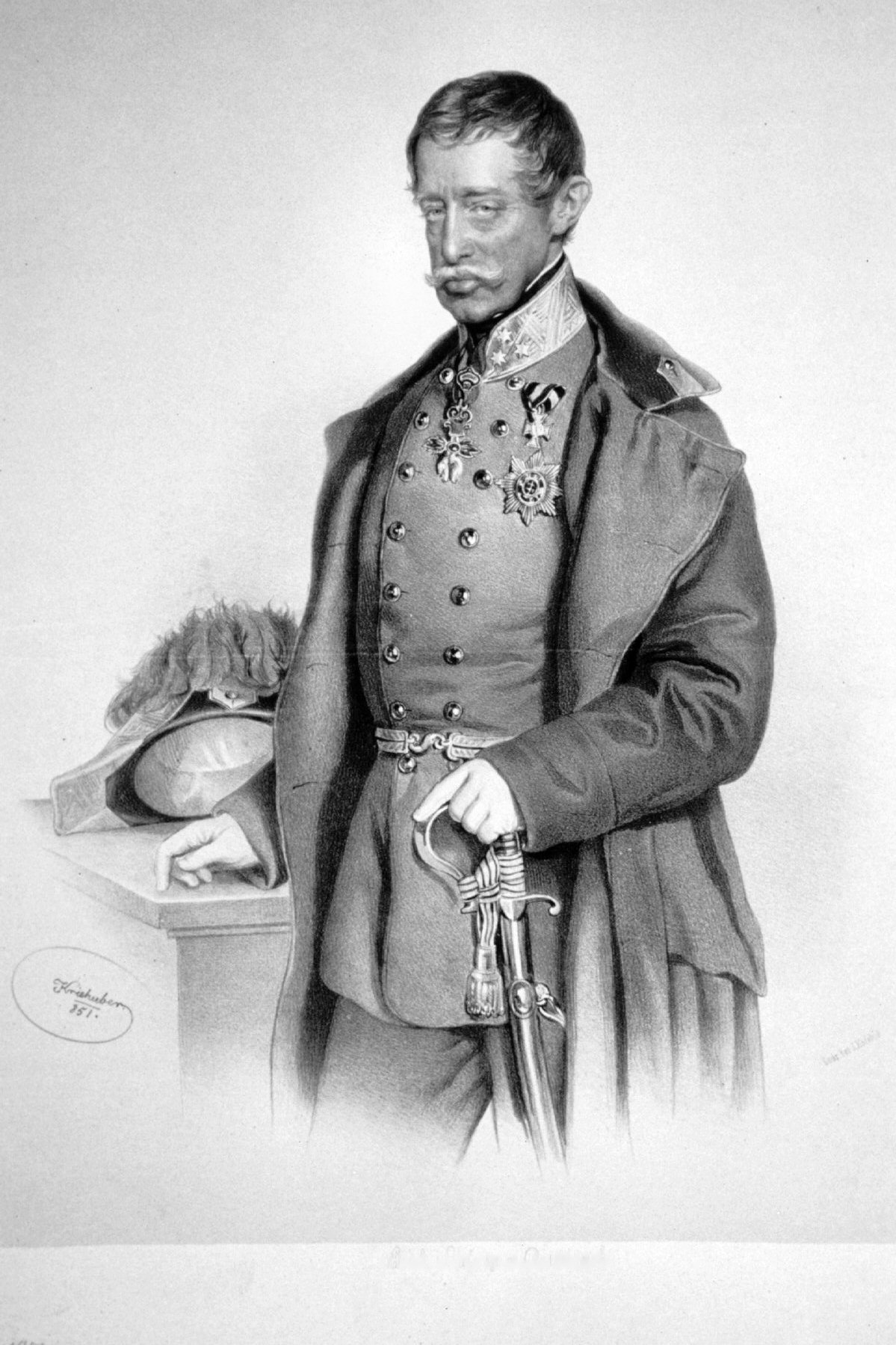 Archduke Ludwig Joseph Anton of Austria (1784-1864), son of emperor Leopold II.